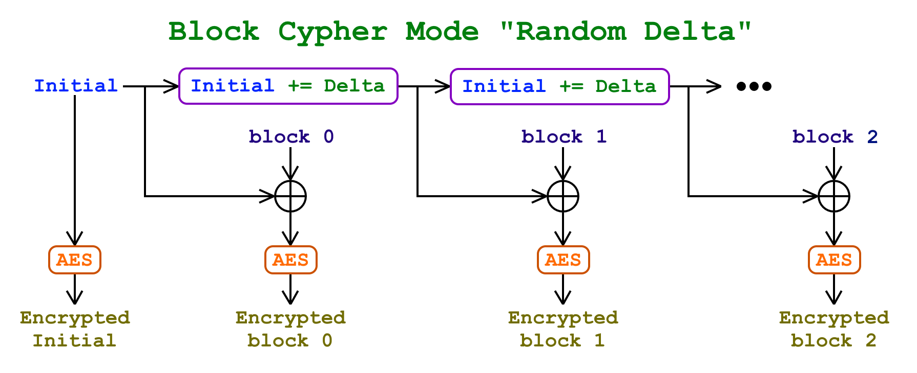 Scheme of the Block Cypher Mode "Random Delta"